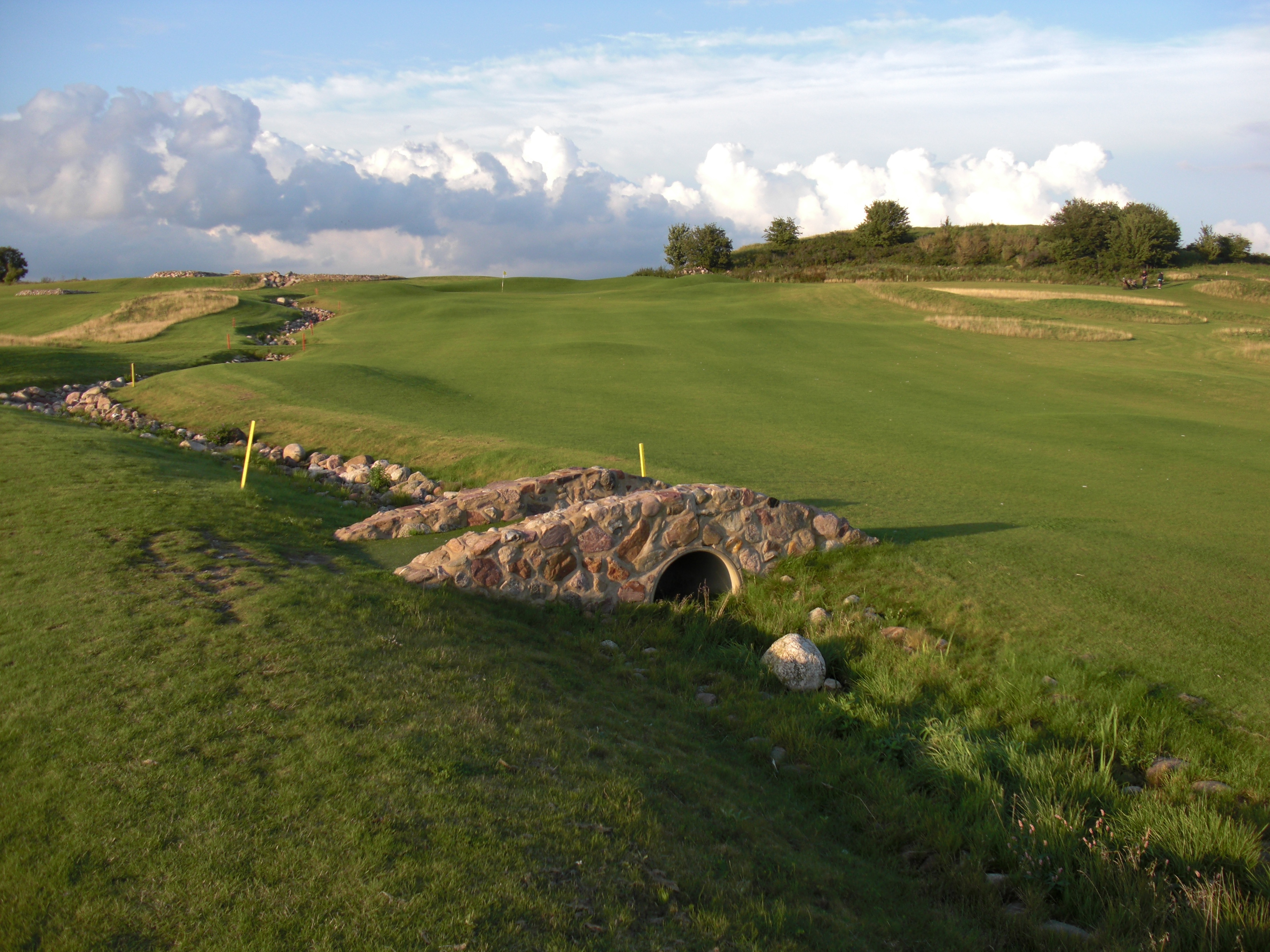 Oxie GK golf course.